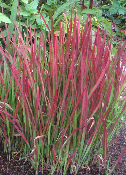 Japanese Blood Grass, in my garden, August 2007. Jim Hood